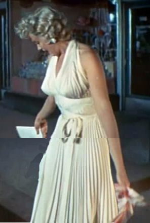 Marilyn Monroe's skirt blows upwards in the theatrical trailer of the 1955 film The Seven Year Itch directed by Billy Wilder.